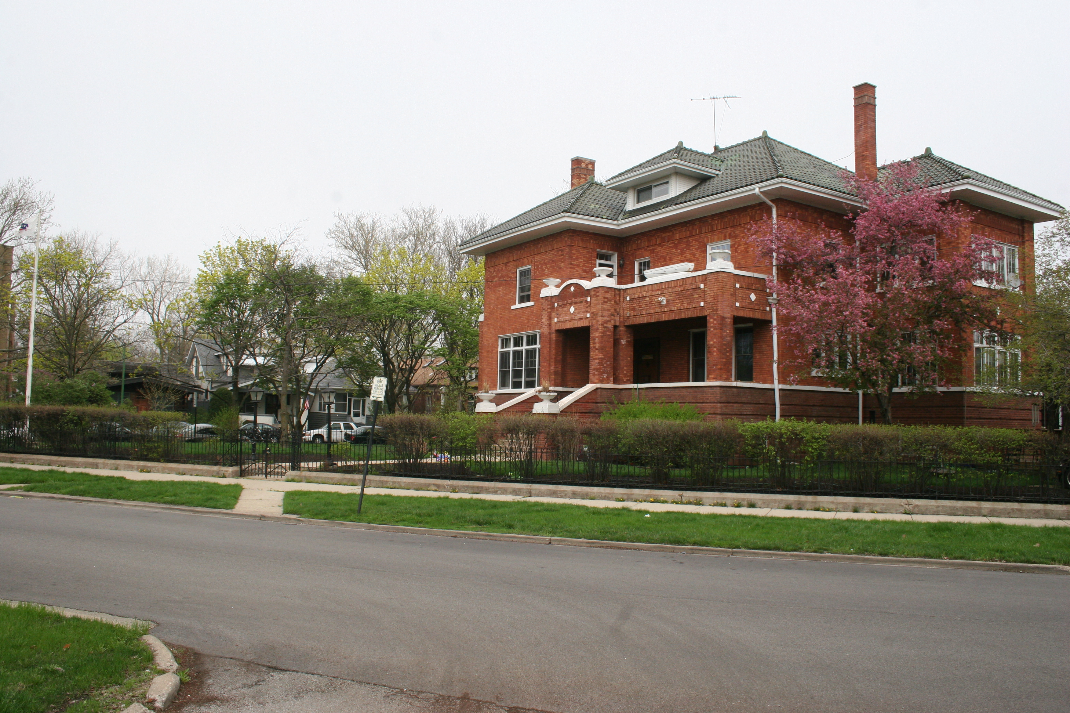 A house and surrounding neighborhood in Ravenswood Manor, Chicago, Illinois